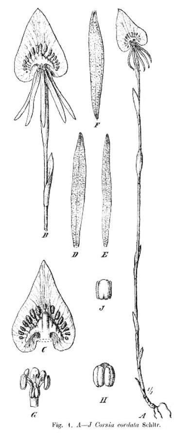 Illustration of Corsia cordata